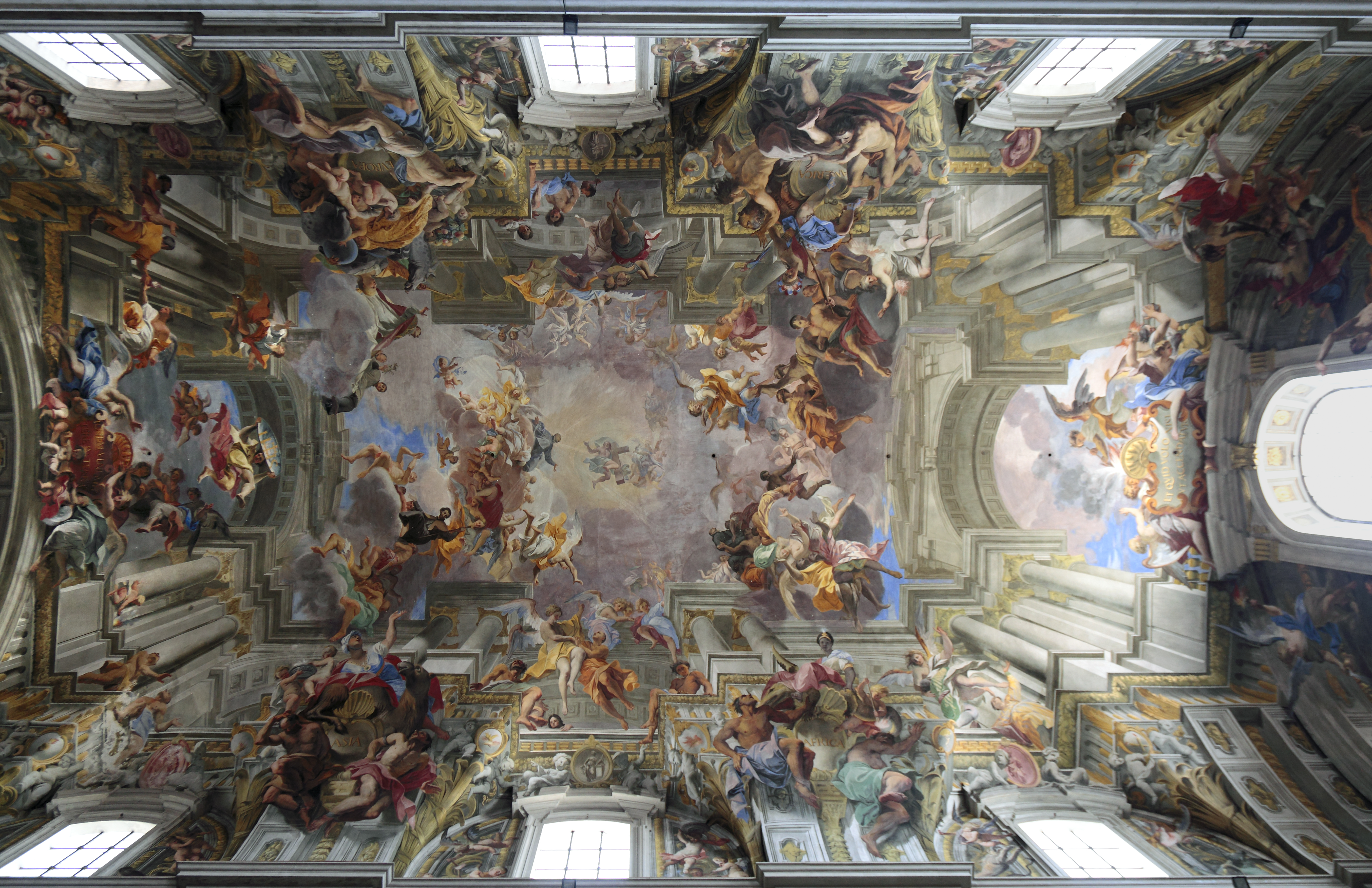 Triumph of St. Ignatius, ceiling fresco by Andrea Pozzo, church Sant'Ignazio, Rome